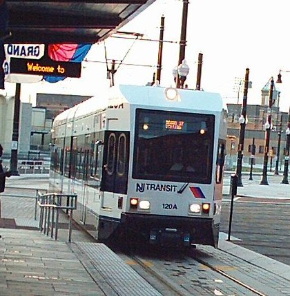 A Newark Light Rail vehicle arrives at Broad Street Station. Taken by Temlakos